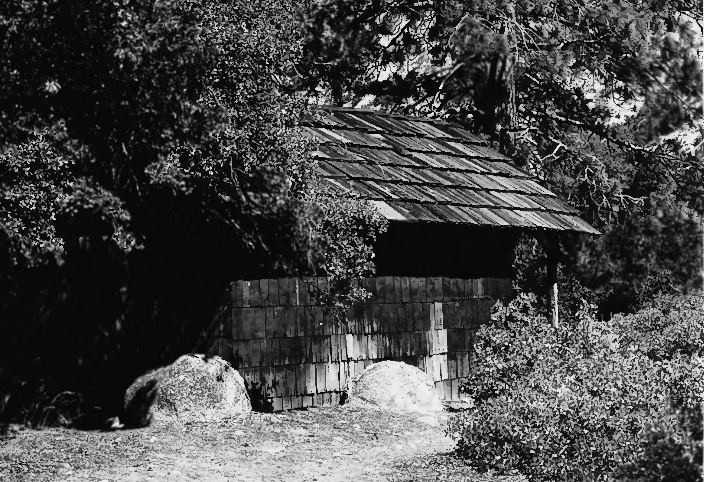 The Knapp Cabin — in Kings Canyon National Park. Built in 1925, it is on the National Register of Historic Places in Sequoia-Kings Canyon National Parks.